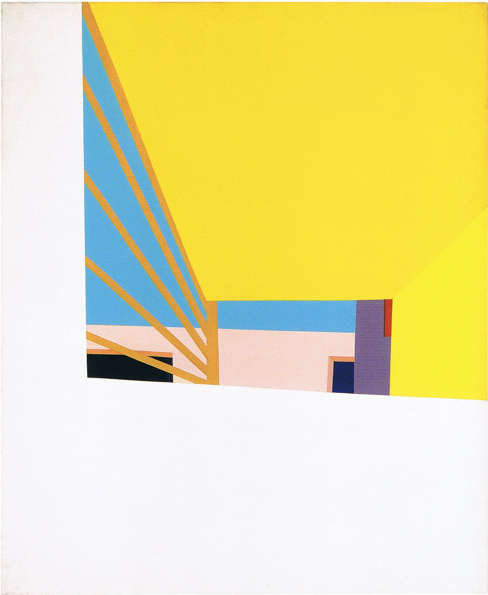 View from the terrace, houses in Tel Aviv